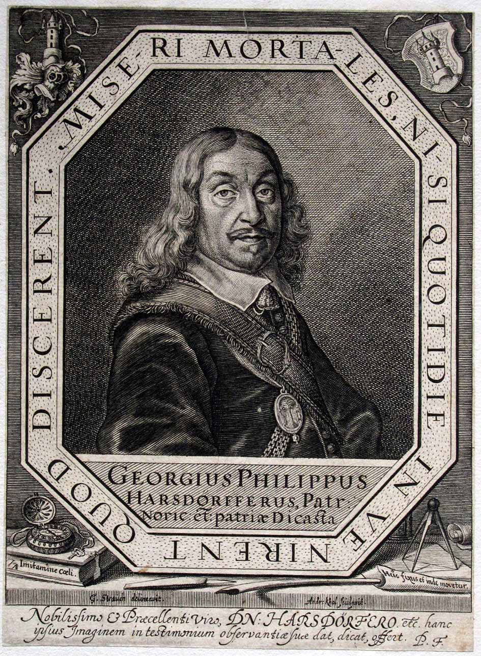 The german writer Georg Philipp Harsdörffer (1607-1658)